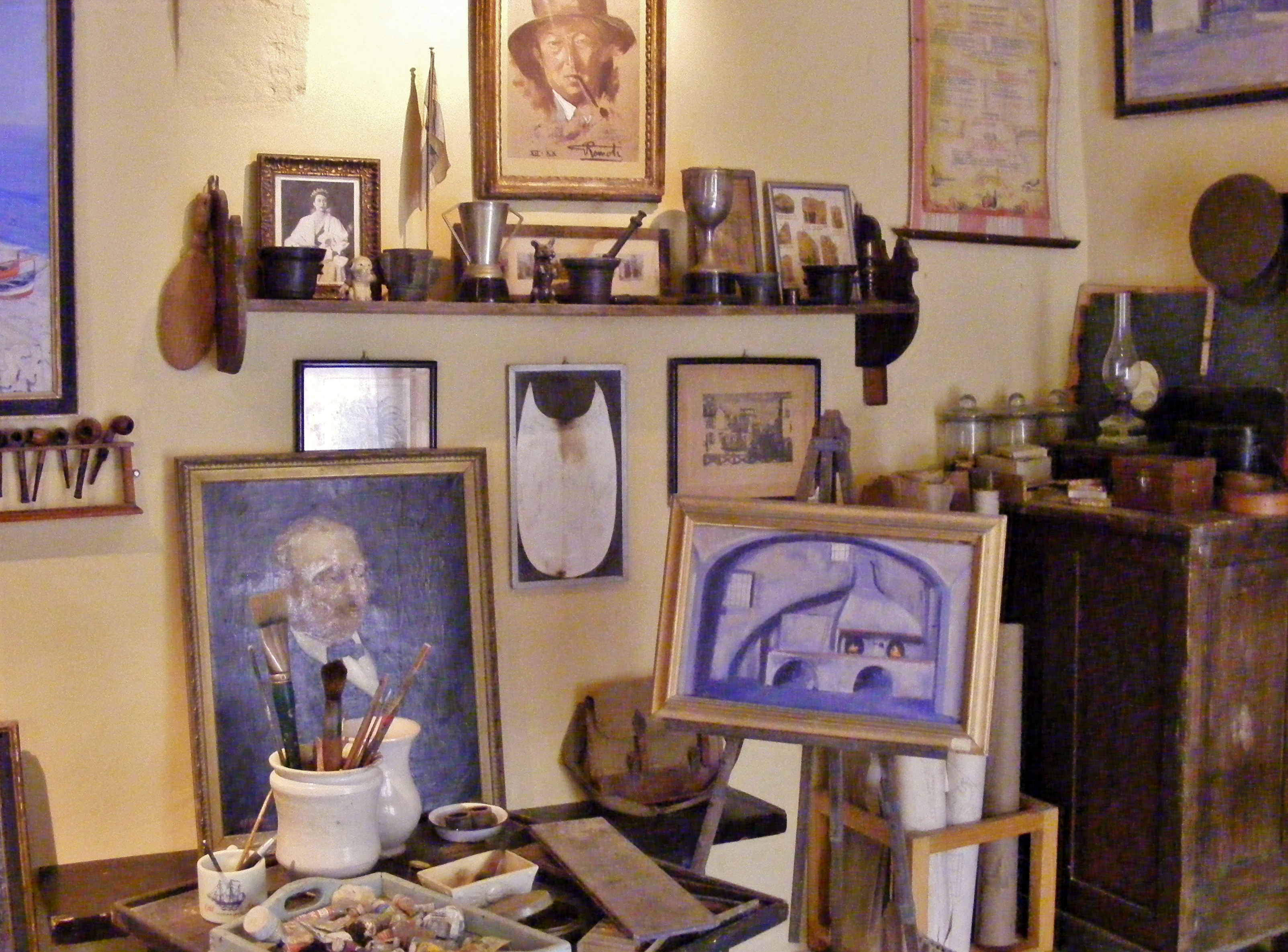 The Studio - Palazzo Falson, Mdina, Malta